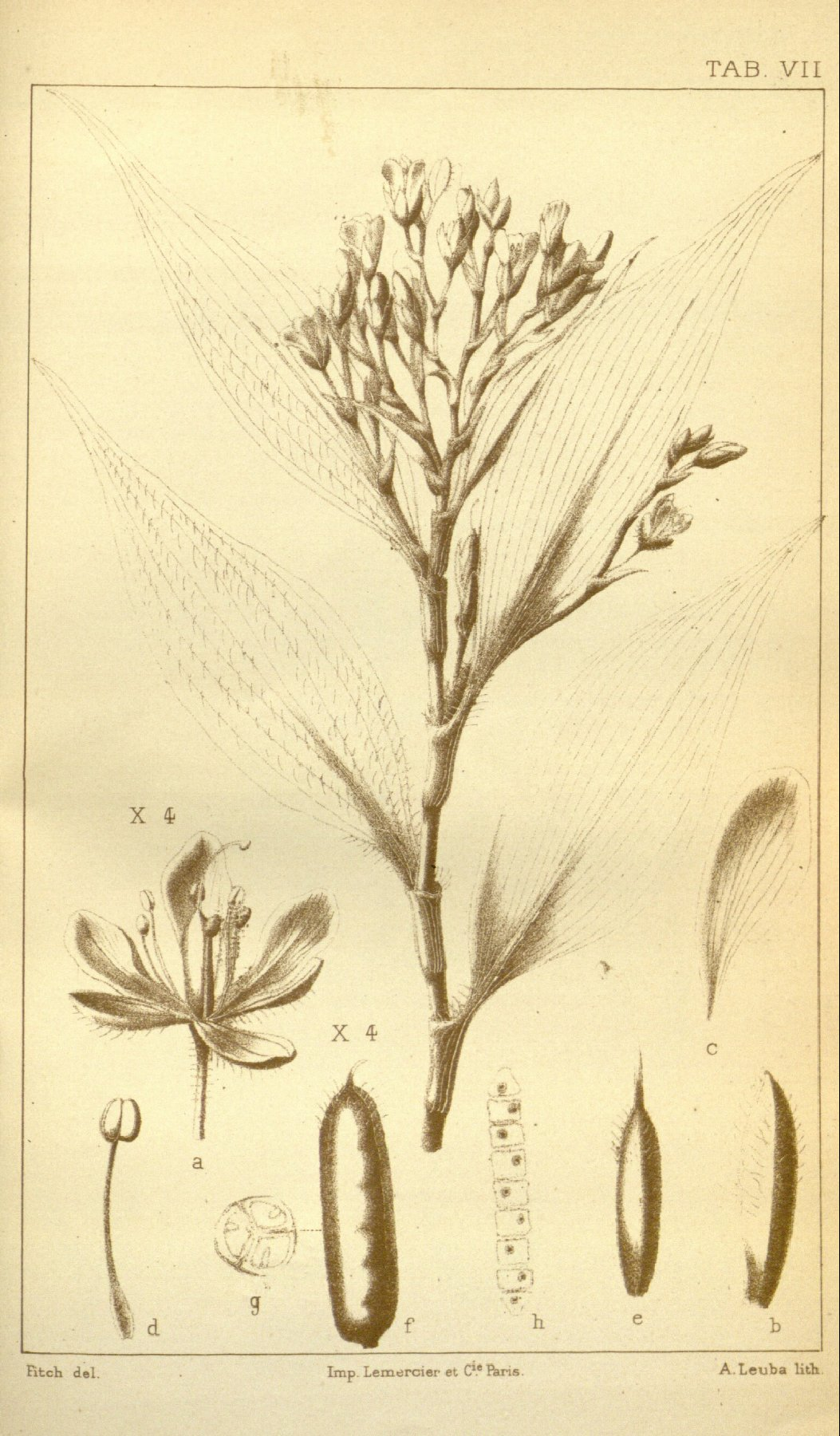 Illustration of Stanfieldiella imperforata (here treated as Buforrestia imperforata) in the same publication as the first description this species.